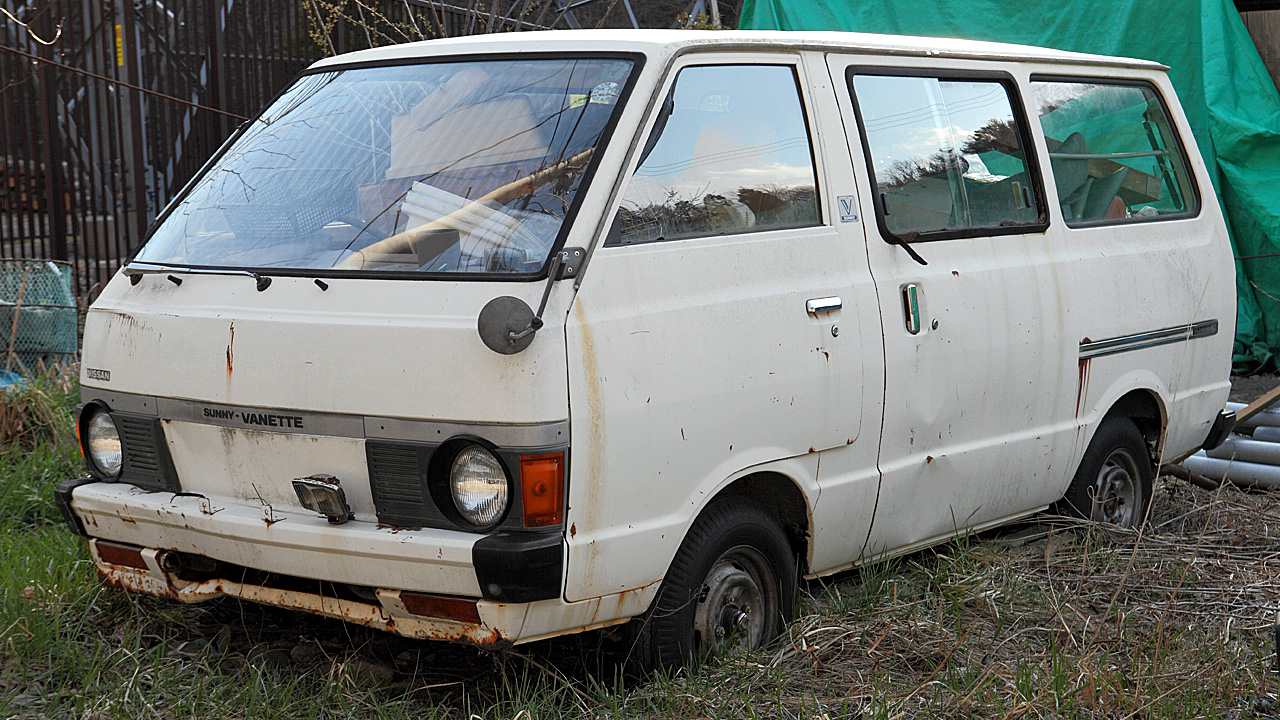 Nissan Sunny Vanette Van ( C120 )